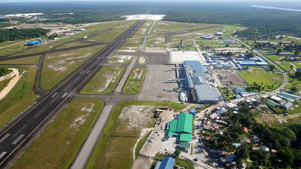 sattilite view